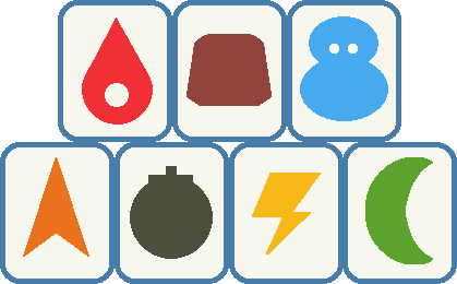 Symbols for the character Kirby's abilities in the video game Kirby 64: The Crystal Shards.